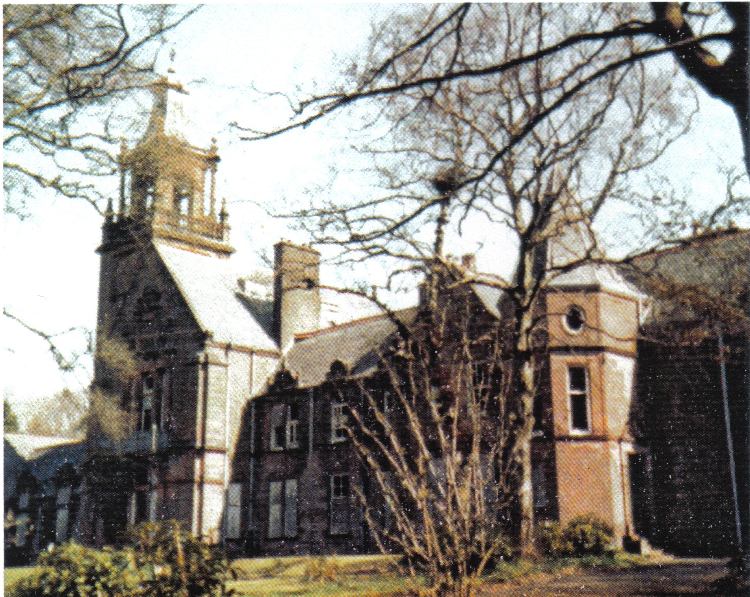 Spier's School, Beith, North Ayrshire, Scotland. Prior to demolition in the 1980s.